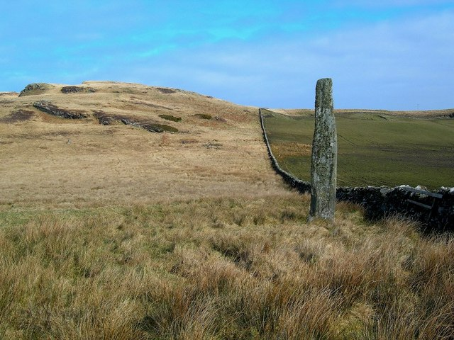 Standing Stone Near Ballinaby This tall stone is clearly visible from the road to the north of Loch Gorm, but is hidden from view on the path leading in from Saligo Bay. It's worth the walk. There's a second smaller stone in the next square, just visible in the left-hand side of this shot below a rocky outcrop.